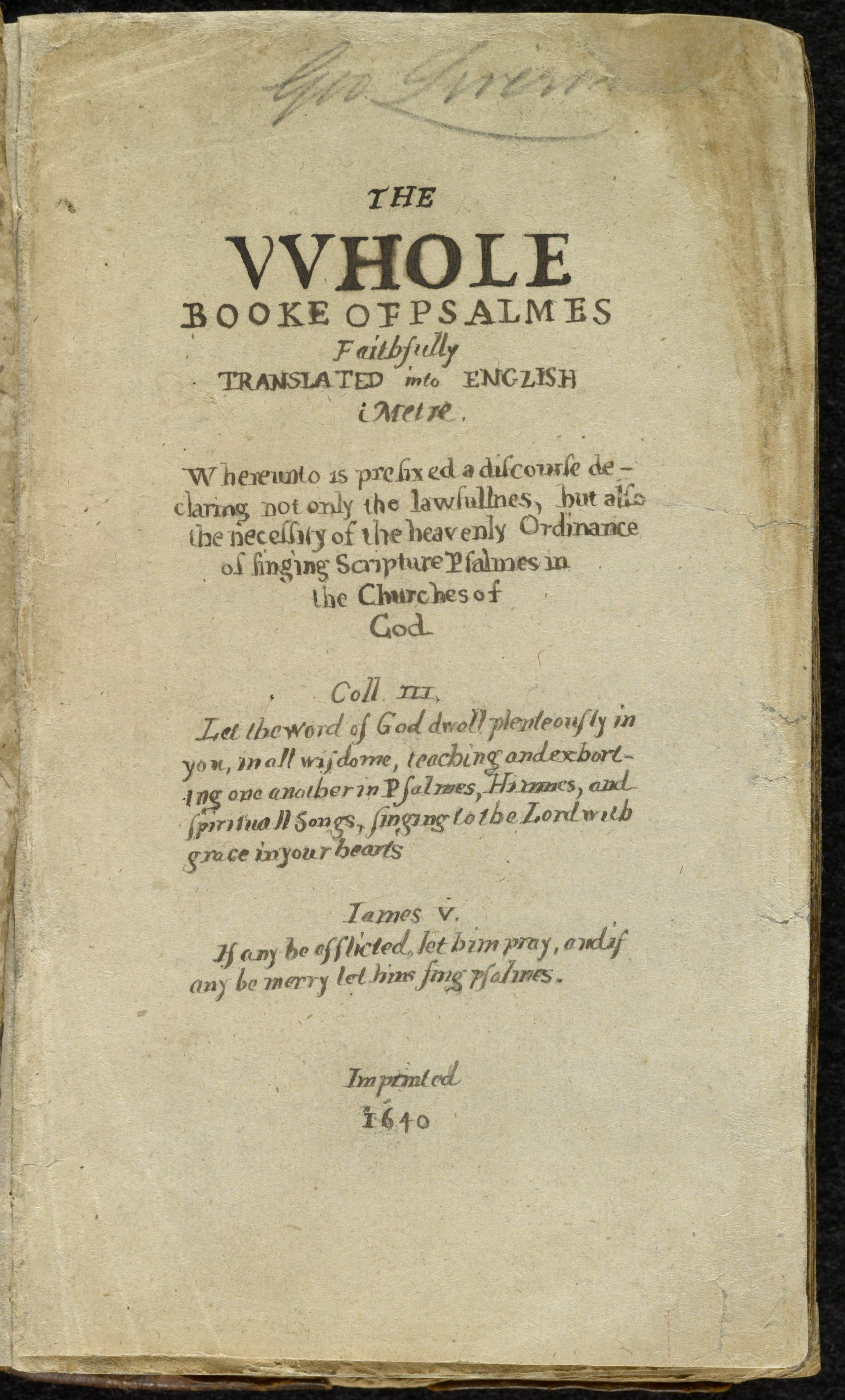 Title page of Bay Psalm Book in the Library of Congress